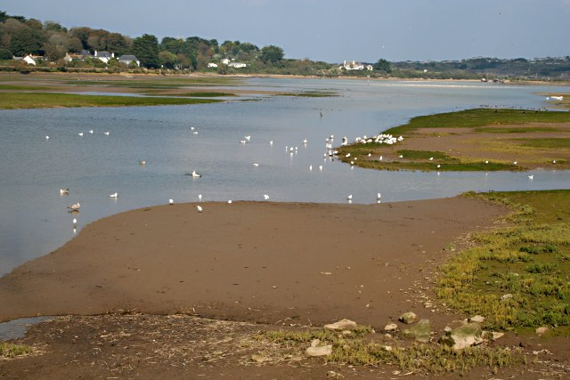 The Hayle Estuary Looking across to Lelant from the causeway road.